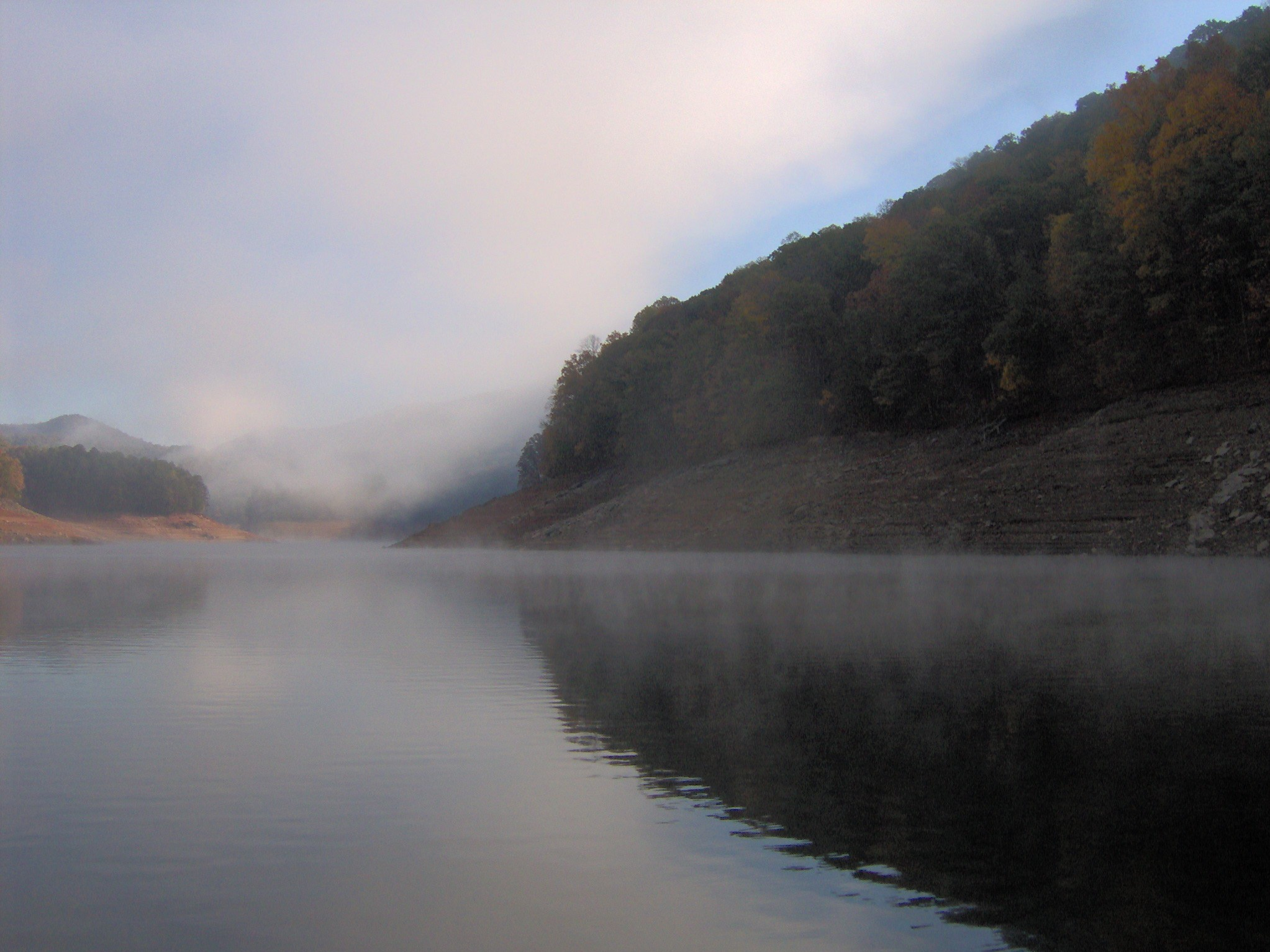 The embayment of Hazel Creek along the Little Tennessee River (Fontana Lake) in the Great Smoky Mountains of North Carolina, located in the Southeastern United States.